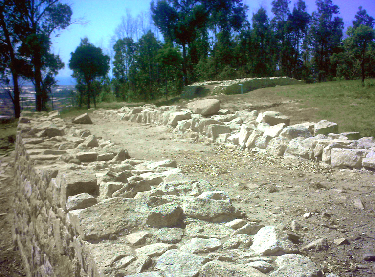 Cividade de Terroso Wall taken June 1, 2006 by user:PedroPVZ